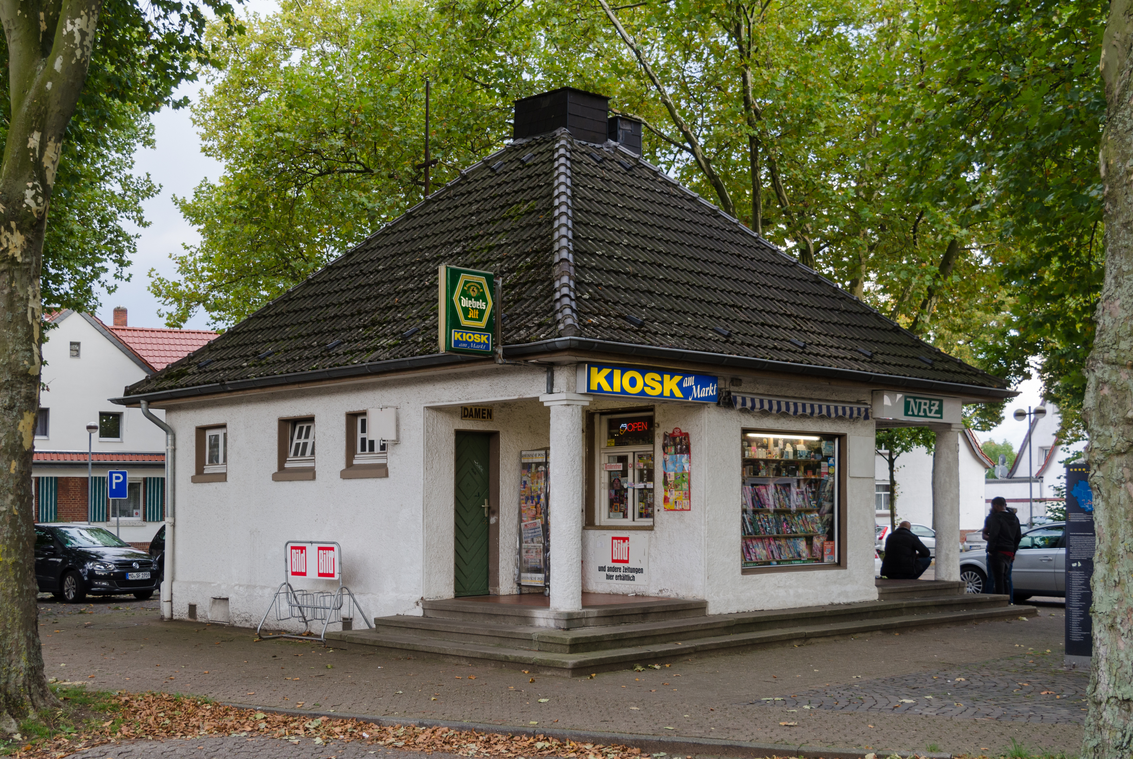 Kamp-Lintfort (North Rhine-Westphalia, Germany) – Friedrich-Heinrich miners' estate – small market square – listed kiosk, former milk house